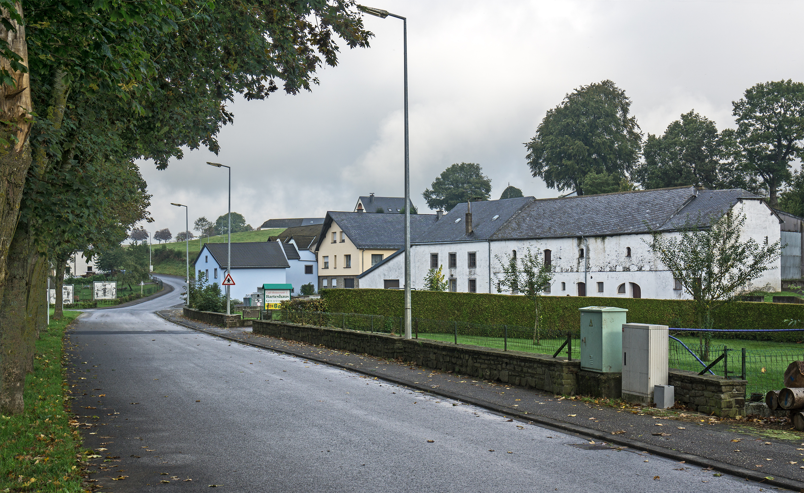 Wayside chapel on the main road in Deiffelt